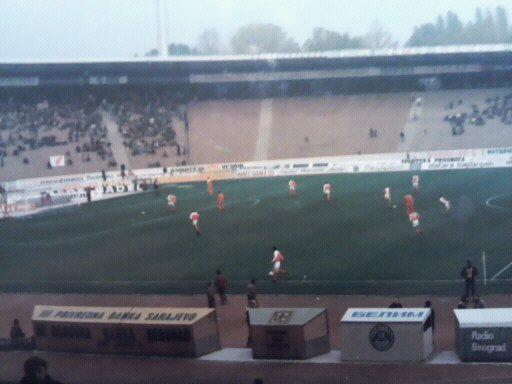 FK Crvena Zvezda plays soccer in Belgrade, Yugoslavia in October 1983. Taken by my parents. They allowed me to use it.